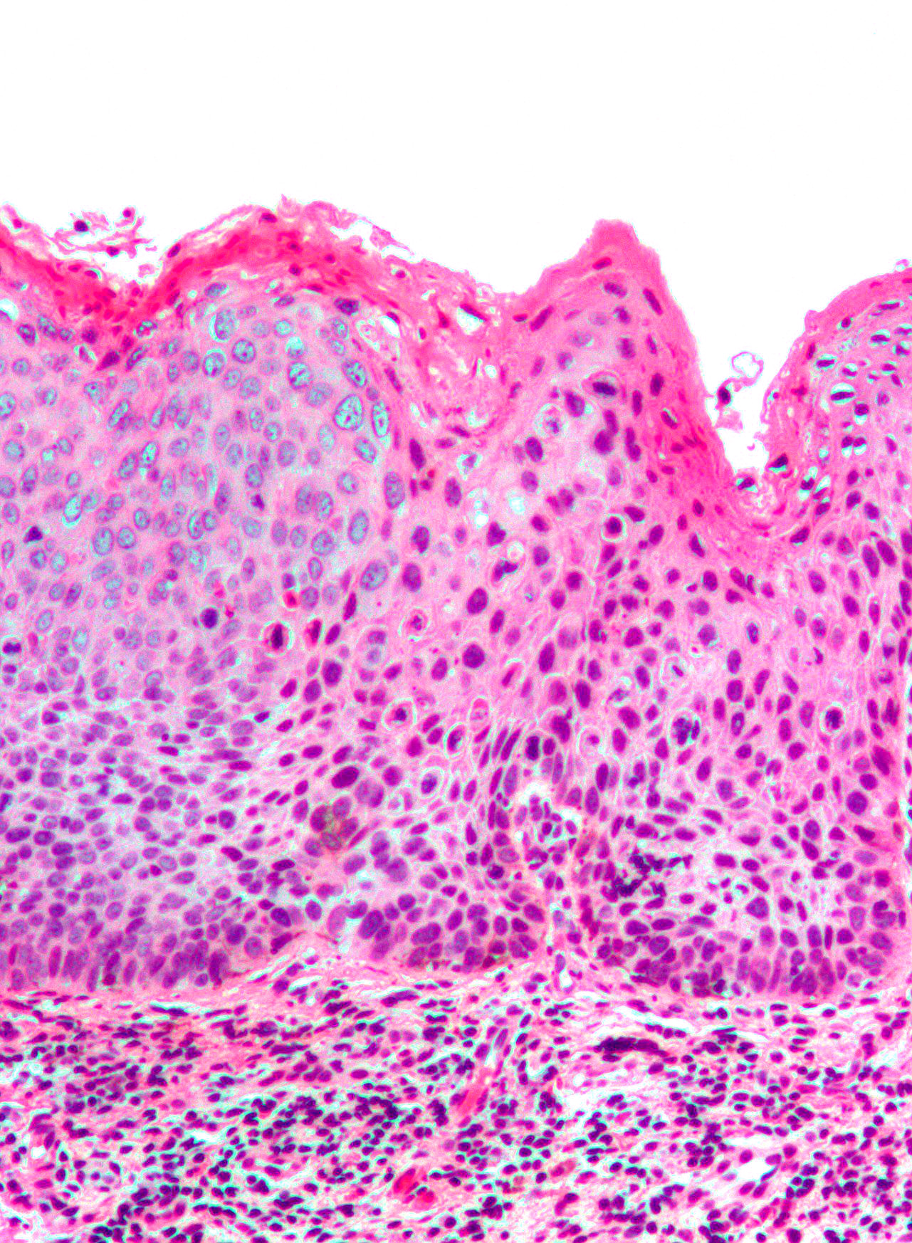 Micrograph of vulvar intraepithelial neoplasia III (VIN III). H&E stain. See also Image:Vulvar_intraepithelial_neoplasia3_2.jpg - low magnification micrograph of VIN III